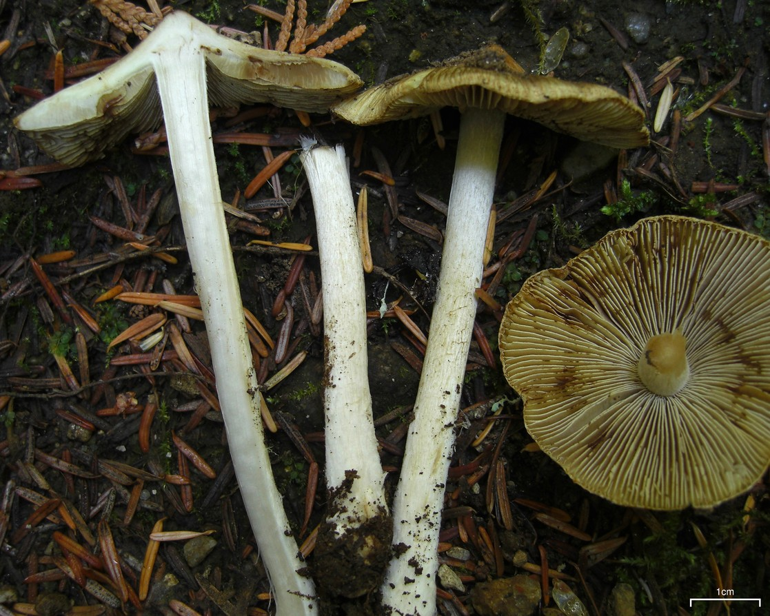 Inocybe sororia 20090927.126 Canada, BC, Incomappleux Inland Rainforest